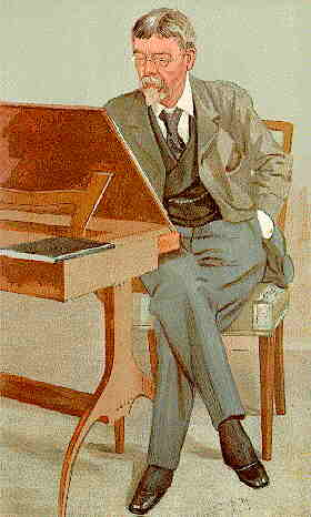 Caricature of George Louis Palmella Busson du Maurier (1834-1896). Caption read "Trilby".